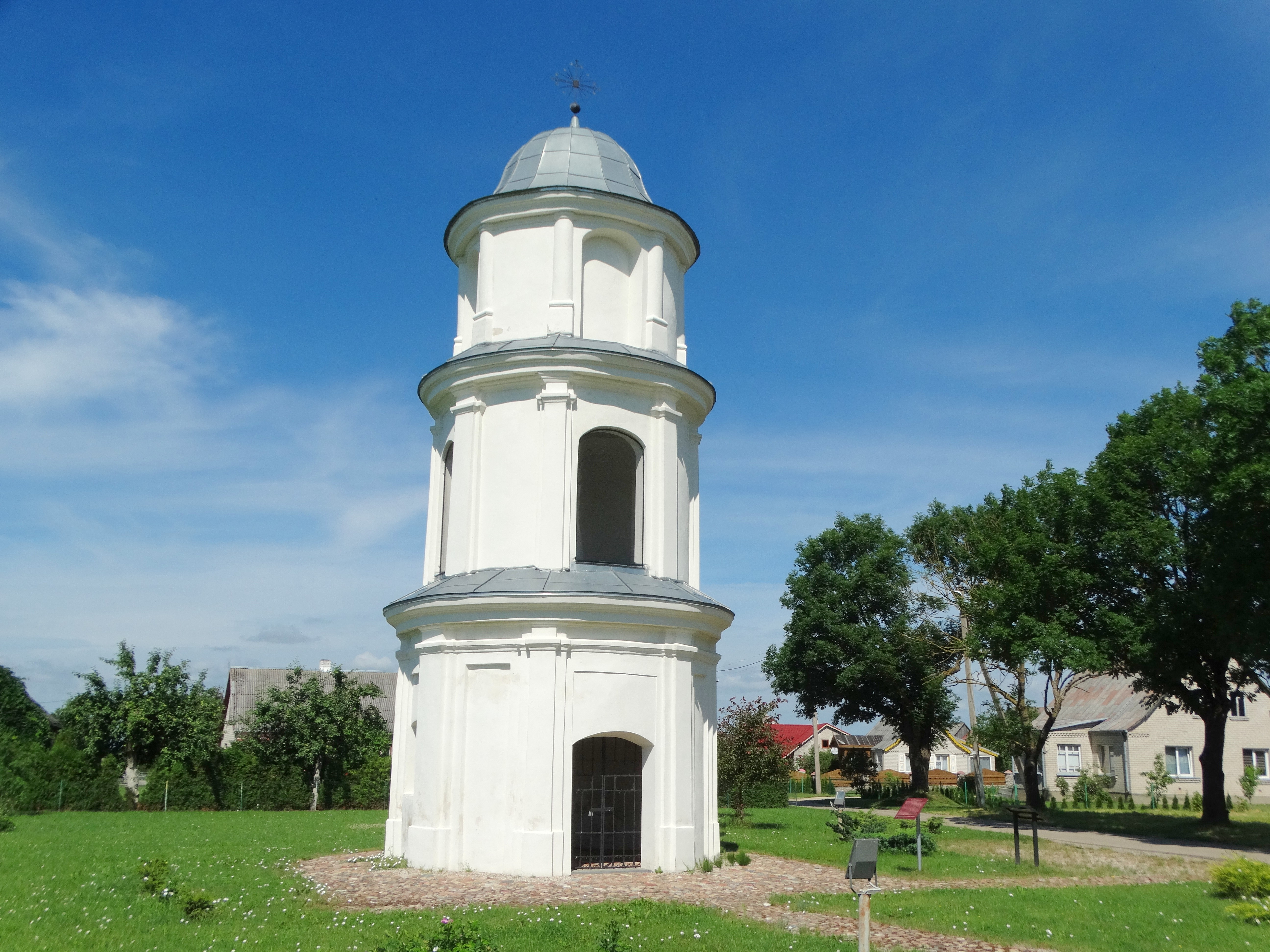 Žeimiai manor chapel, Jonava district, Lithuania